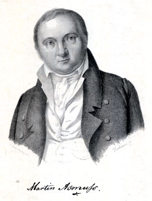 German-Estonian school teacher, poet, writer and mathematician Johann Martin Asmuss (1784-1844), father of paleontologist Hermann Martin Asmuss. Portrait signed as "A. Freih. v. Sternberg pinx. Hartmann fec.", denoting 19th c. artists Alexander Freiherr von Ungern-Sternberg and Hermann Eduard Hartmann.